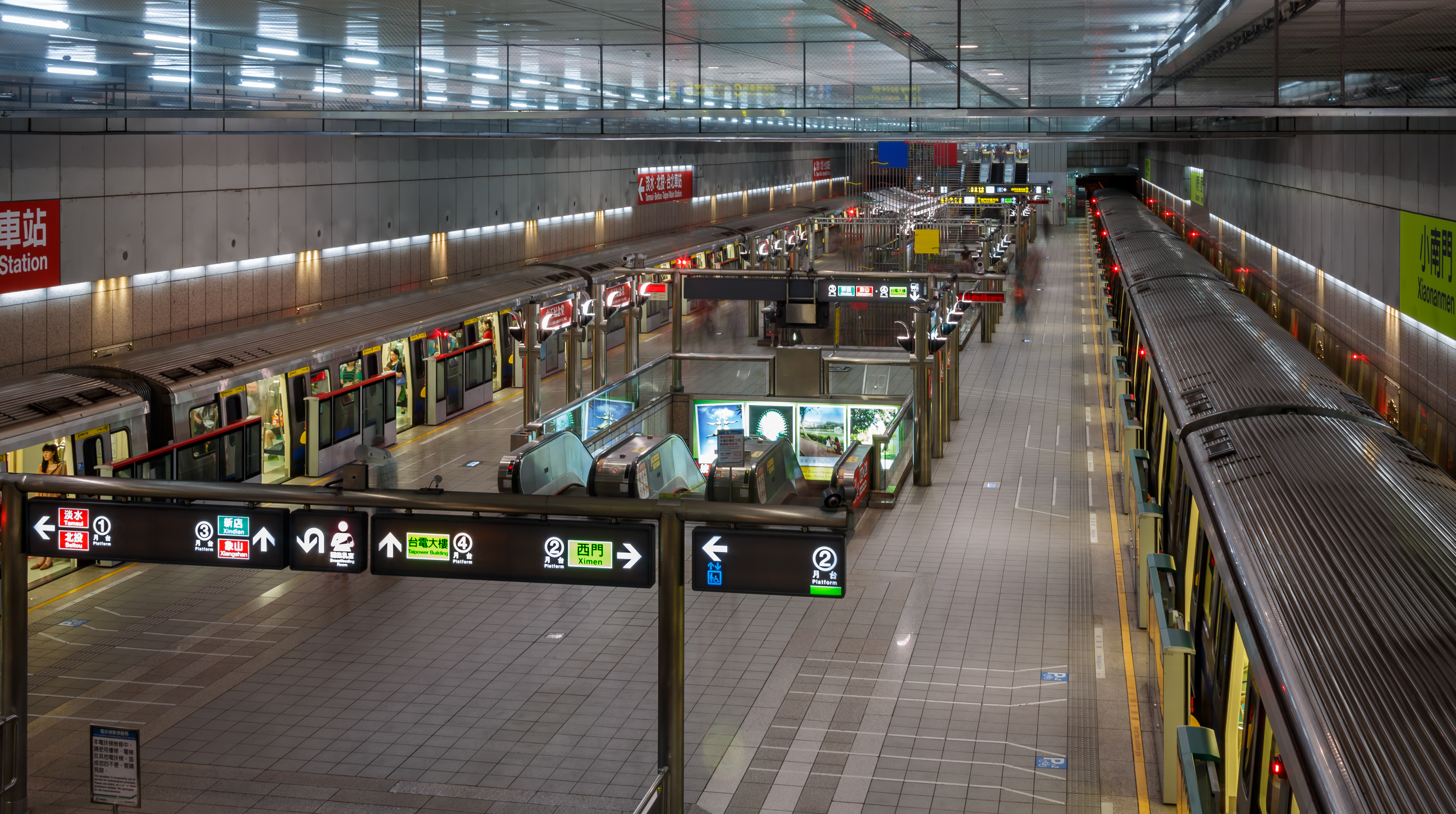 Taipei, Taiwan: Platform 1 (left) and Platform 2 (right) of Taipei MRT "Chiang Kai-shek Memorial Hall Station" with automatic platform gates.